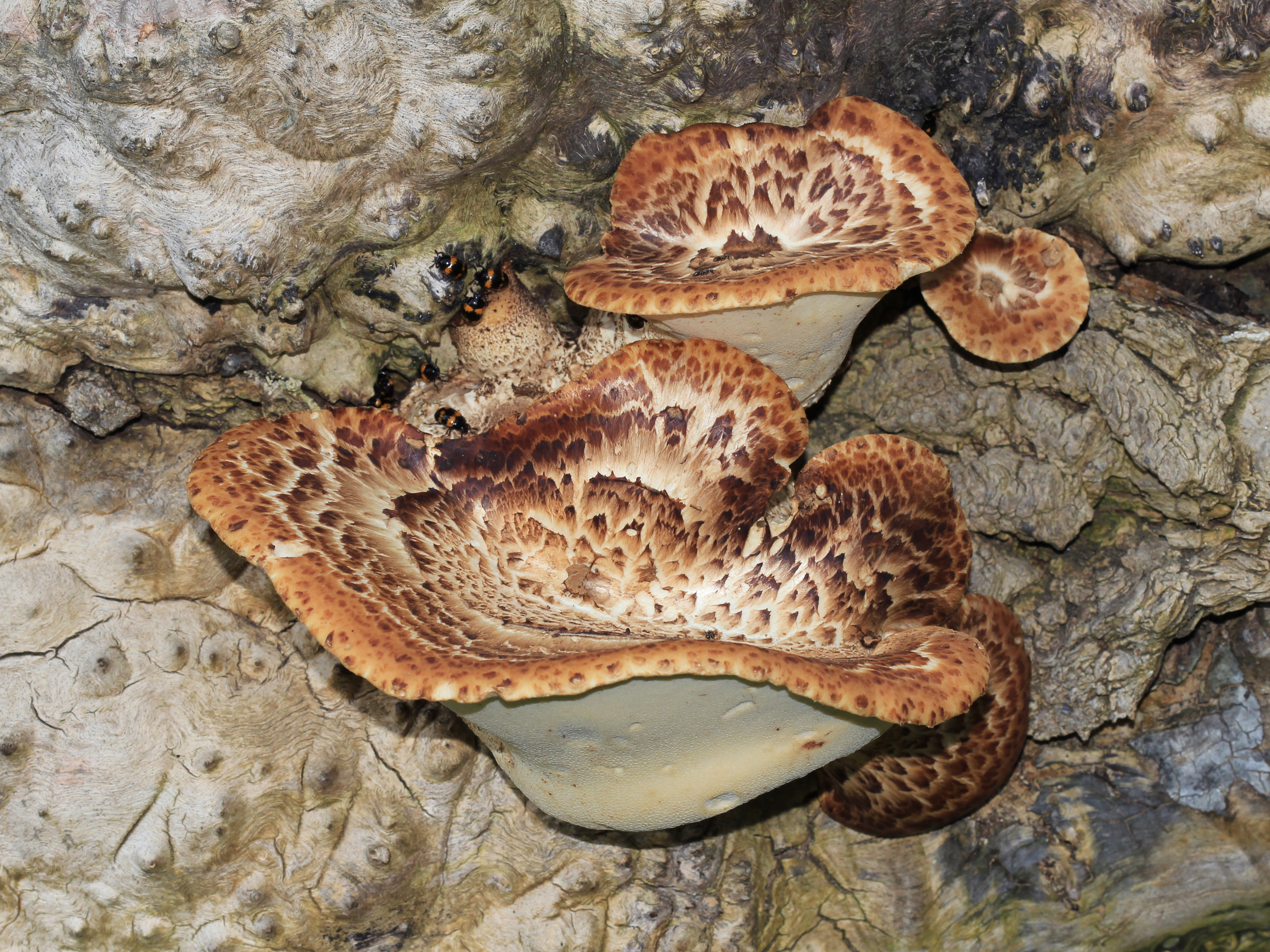 Immature bracket fungi Dryad's saddle Polyporus squamosus and beetles Diaperis boleti. Ukraine.